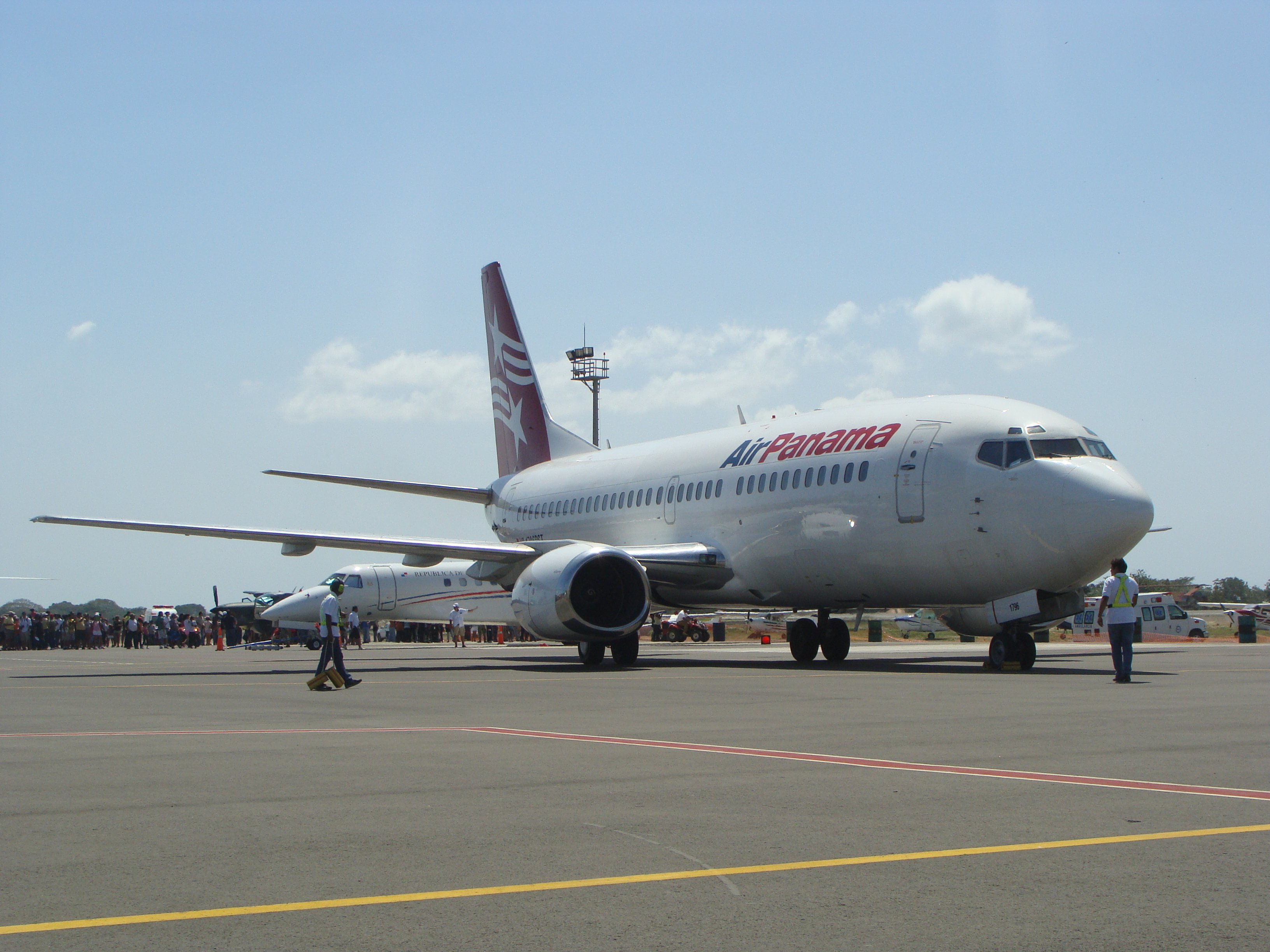 An Air Panama 737-300QC at Rio Hato Airport.